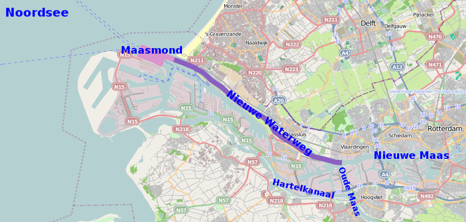 Nieuwe Waterweg, Maasmond, Netherlands location map